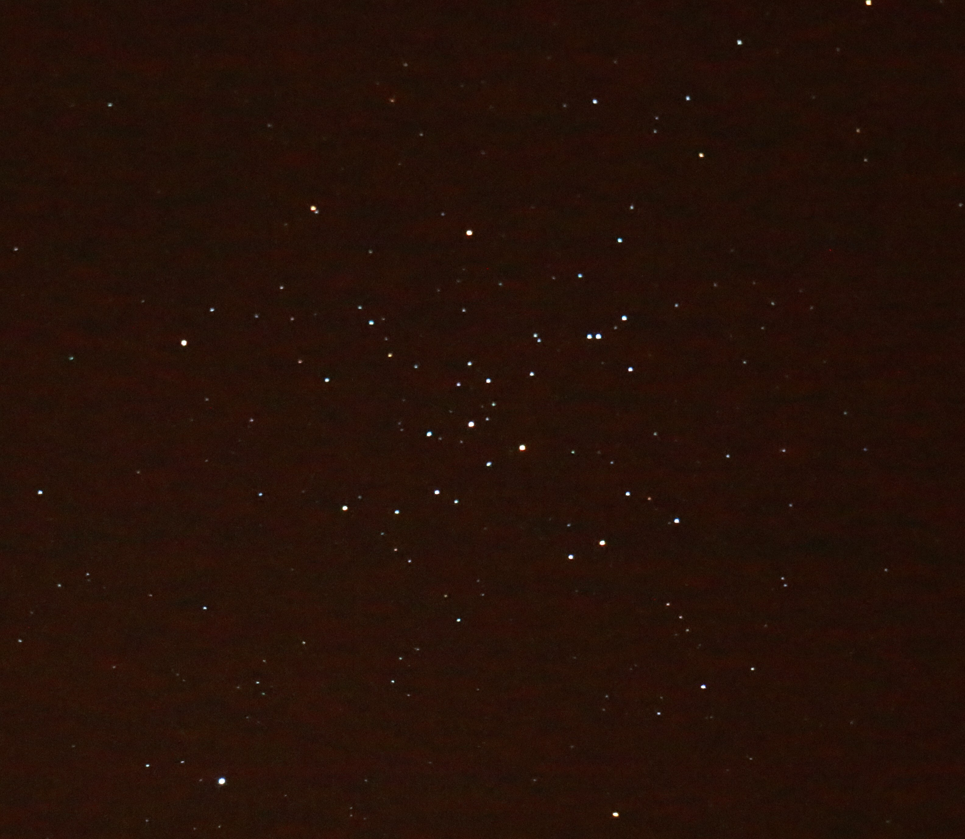 Messier 41 open star cluster, 4 degrees south of Sirius, 8" reflector telescope, south on the bottom